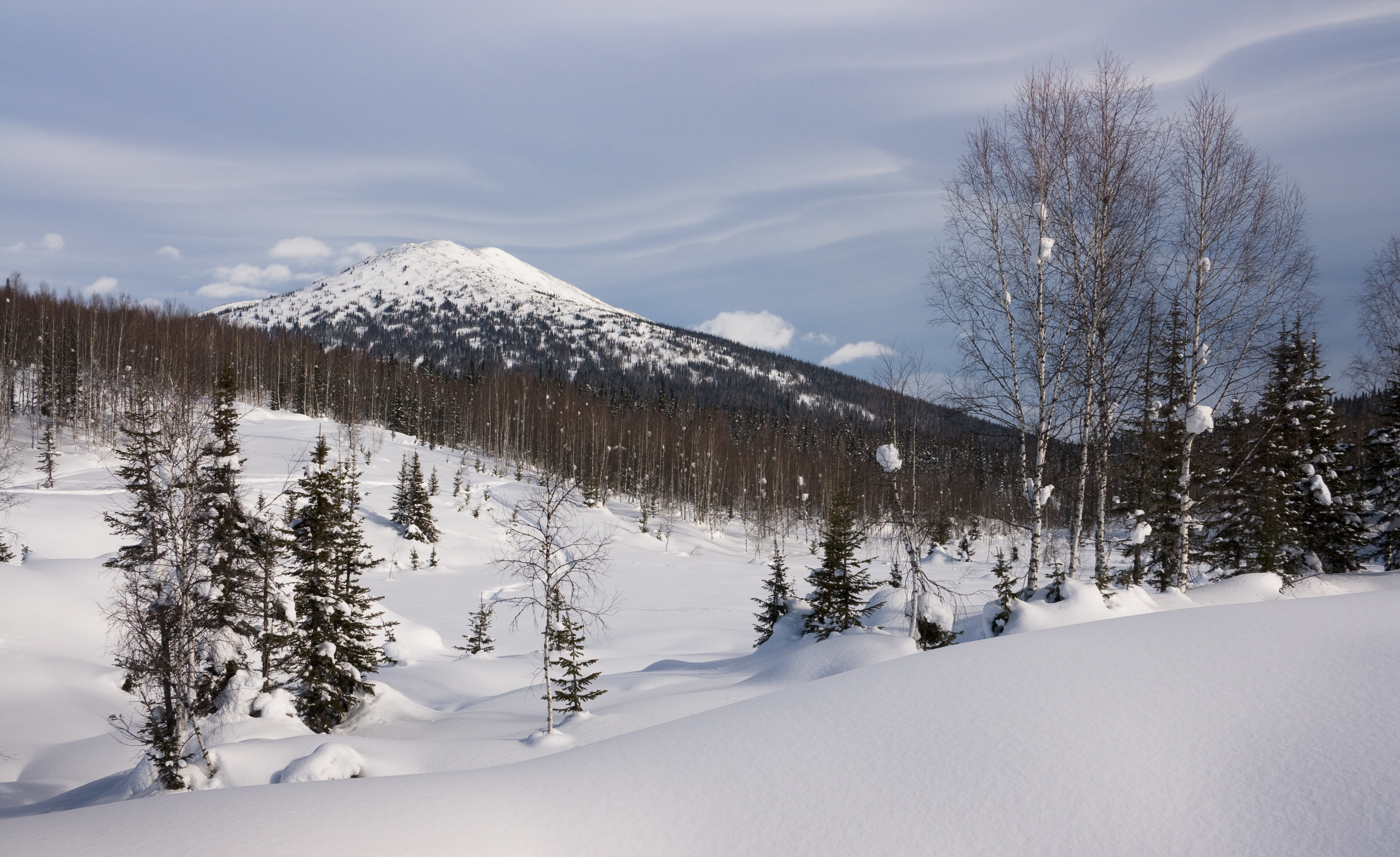 Kuznetsk Alatau, Siberia